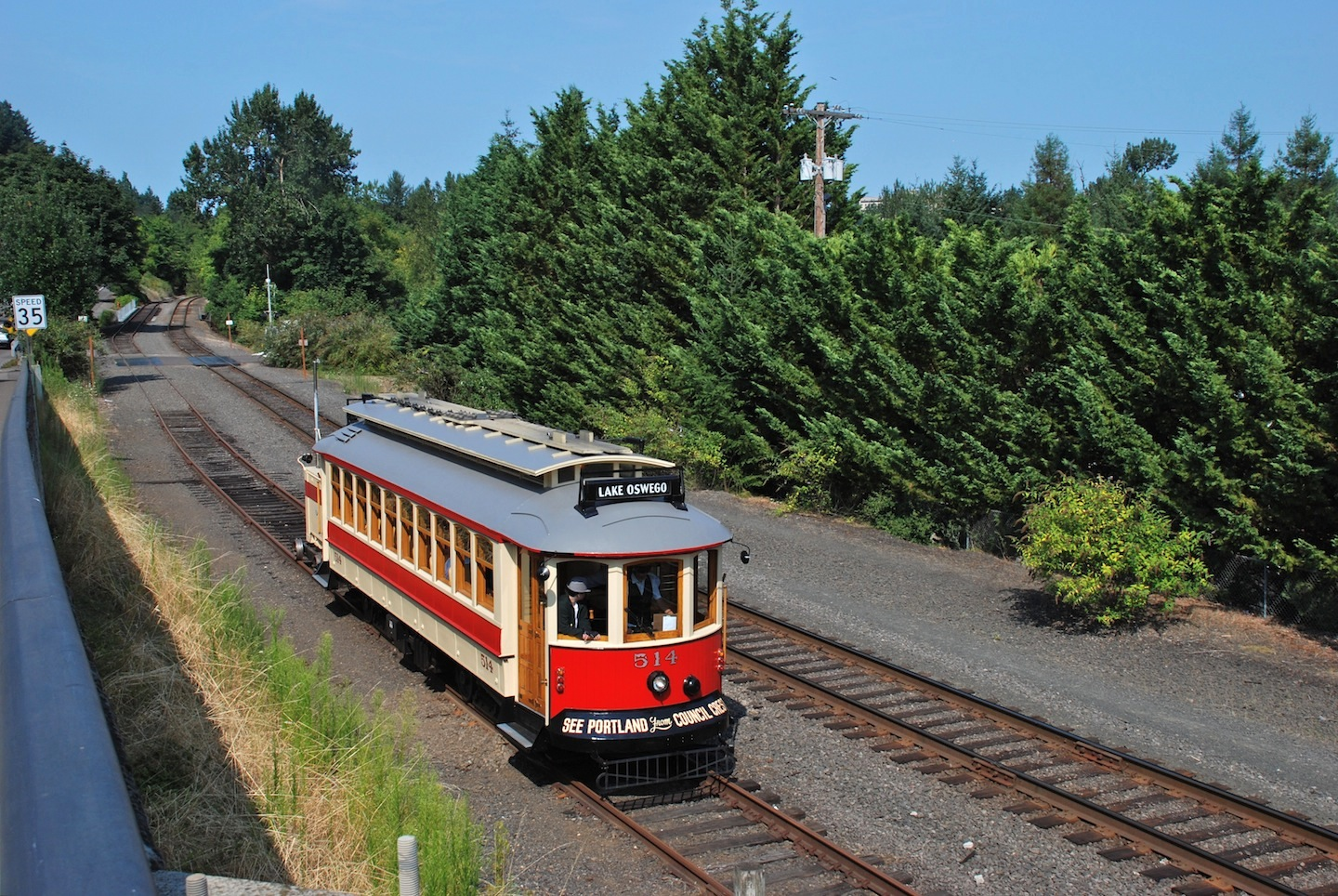 Willamette Shore Trolley car No. 514 approaching downtown Lake Oswego on August 16, 2014, the first day of service for this type of streetcar on the Willamette Shore line. Car 514 is a 1991-built replica of a Portland "Council Crest" car, a model of Brill streetcar that was operated on Portland's Council Crest line (and other lines) from 1904 to 1950.